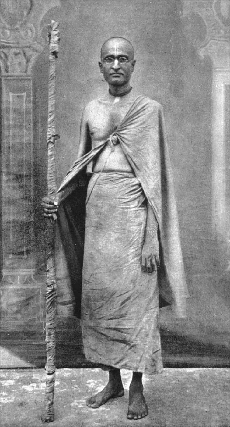 Bhaktisiddhanta's photograph after accepting renounced order of life, 1918